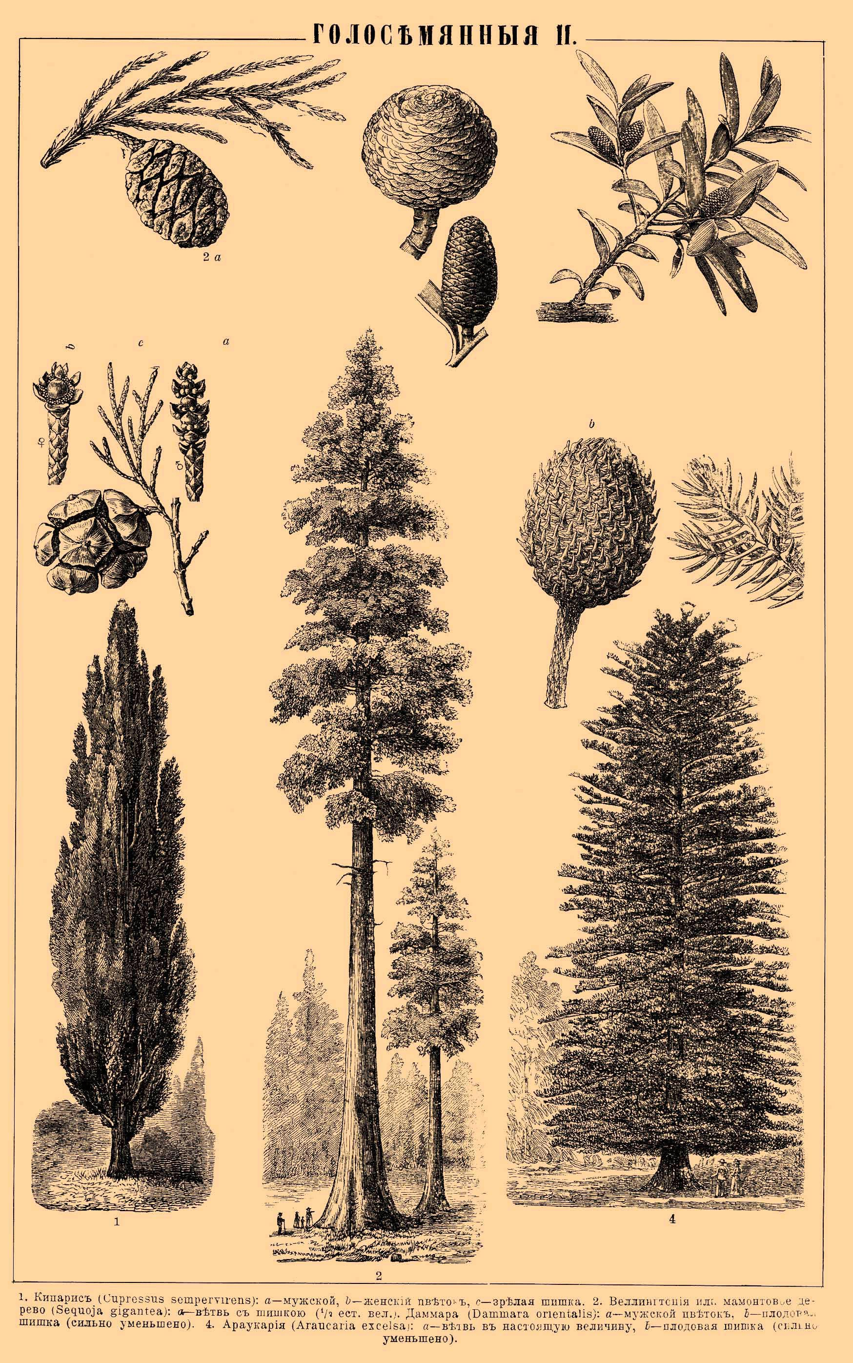 Illustration from Brockhaus and Efron Encyclopedic Dictionary(1890—1907)